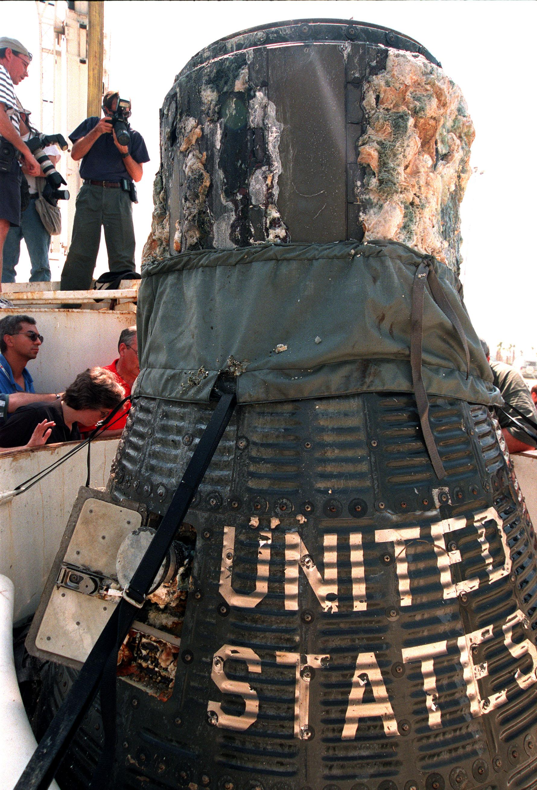 A close-up of the Liberty Bell 7 Project Mercury capsule, recovered from the ocean floor, shows the lettering "United States" still clearly visible on its side. Thirty-eight years before, the capsule made a successful 16-minute suborbital flight, with astronaut Virgil "Gus" Grissom aboard, and splashed down in the Atlantic Ocean. A prematurely jettisoned hatch caused the capsule to flood and a Marine rescue helicopter was unable to lift it. It quickly sank to a three-mile (5 km) depth. Grissom was rescued but his spacecraft remained lost on the ocean floor, until July 20, 1999. In an expedition sponsored by the Discovery Channel, underwater salvage expert Curt Newport fulfilled a 14-year dream in finding and, after one abortive attempt, successfully raising the capsule and bringing it to Port Canaveral. The capsule was moved to the Kansas Cosmosphere and Space Center in Hutchinson, Kansas, where it was restored for public display.